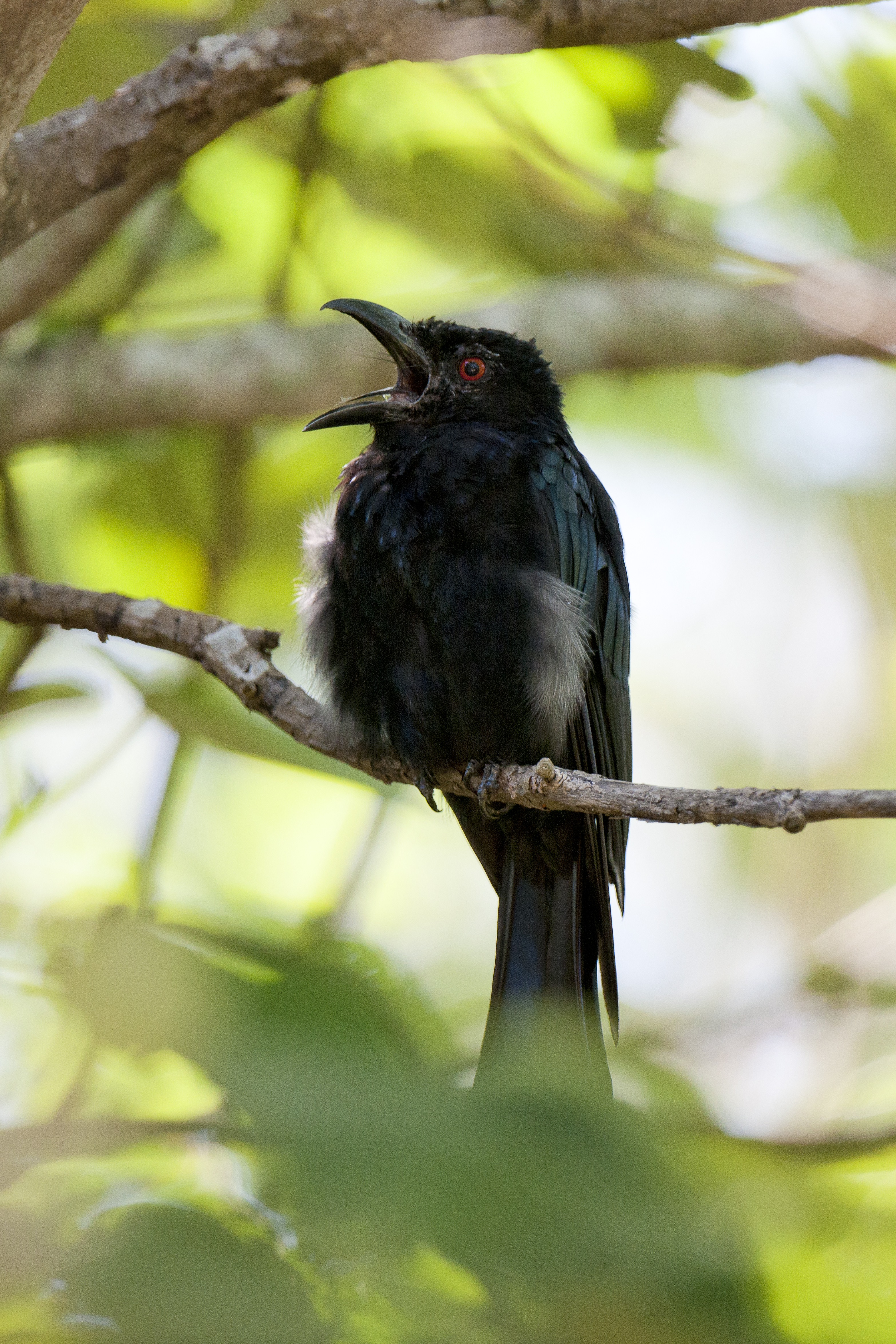 Chermside Hills Reserve